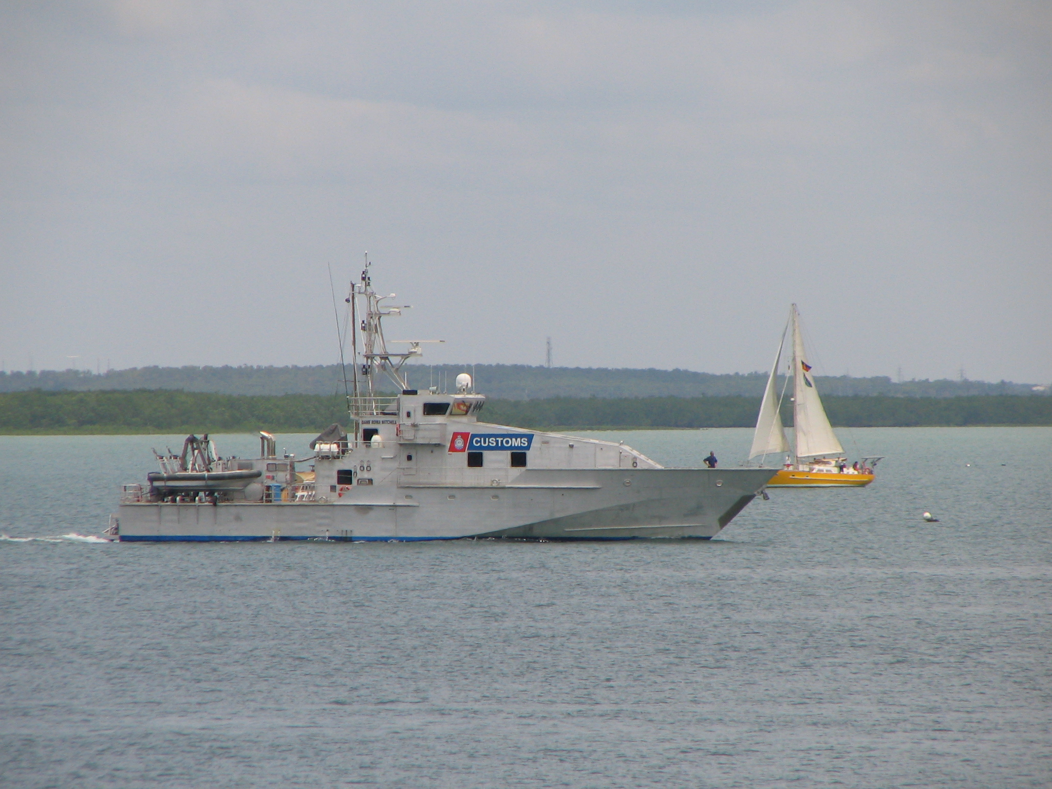 Darwin's Customs boat departing from Darwin Harbour in November 2005.